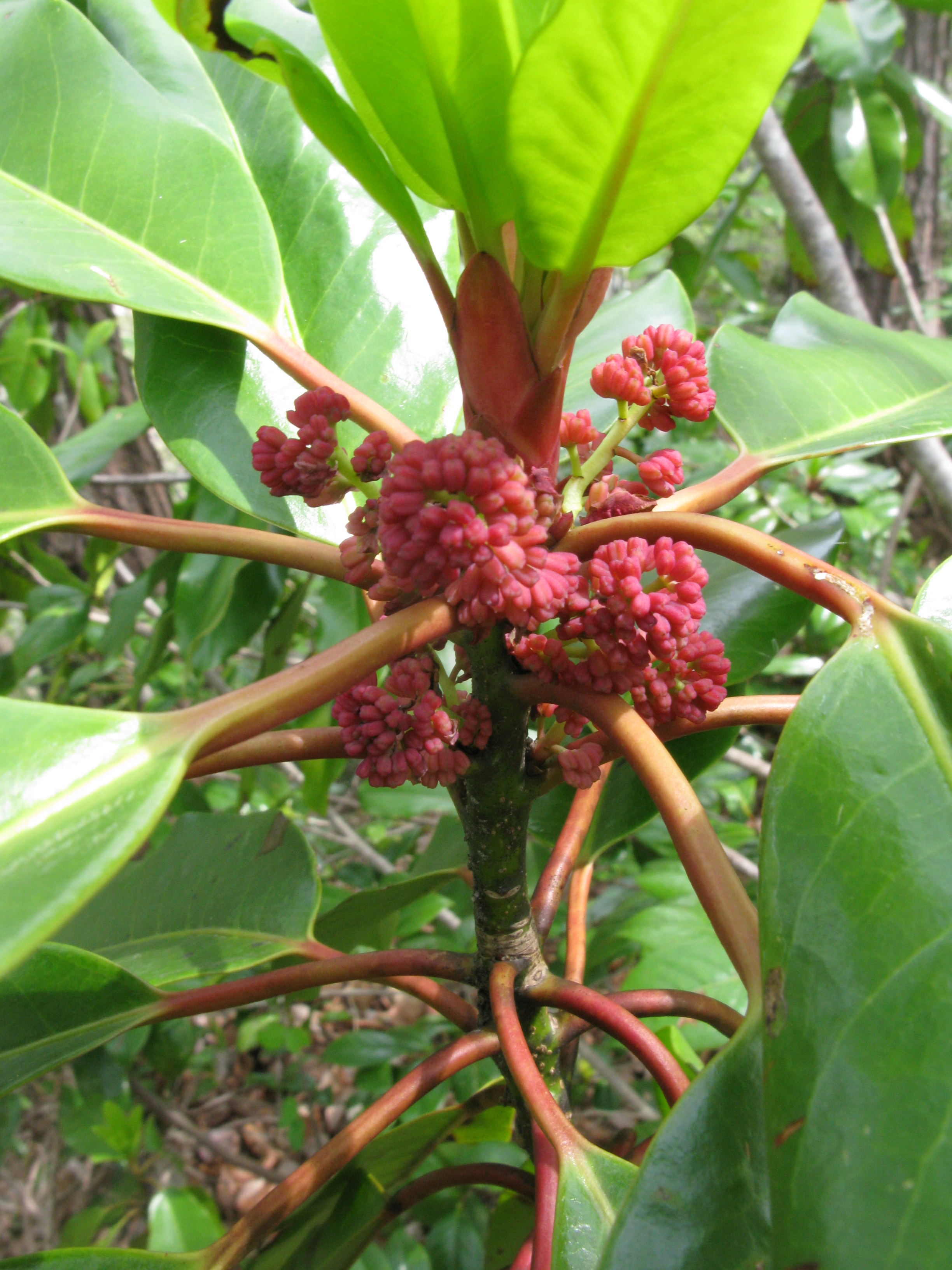 Daphniphyllum macropodum subsp. humile ,Aizu area,Fukushima pref.,Japan